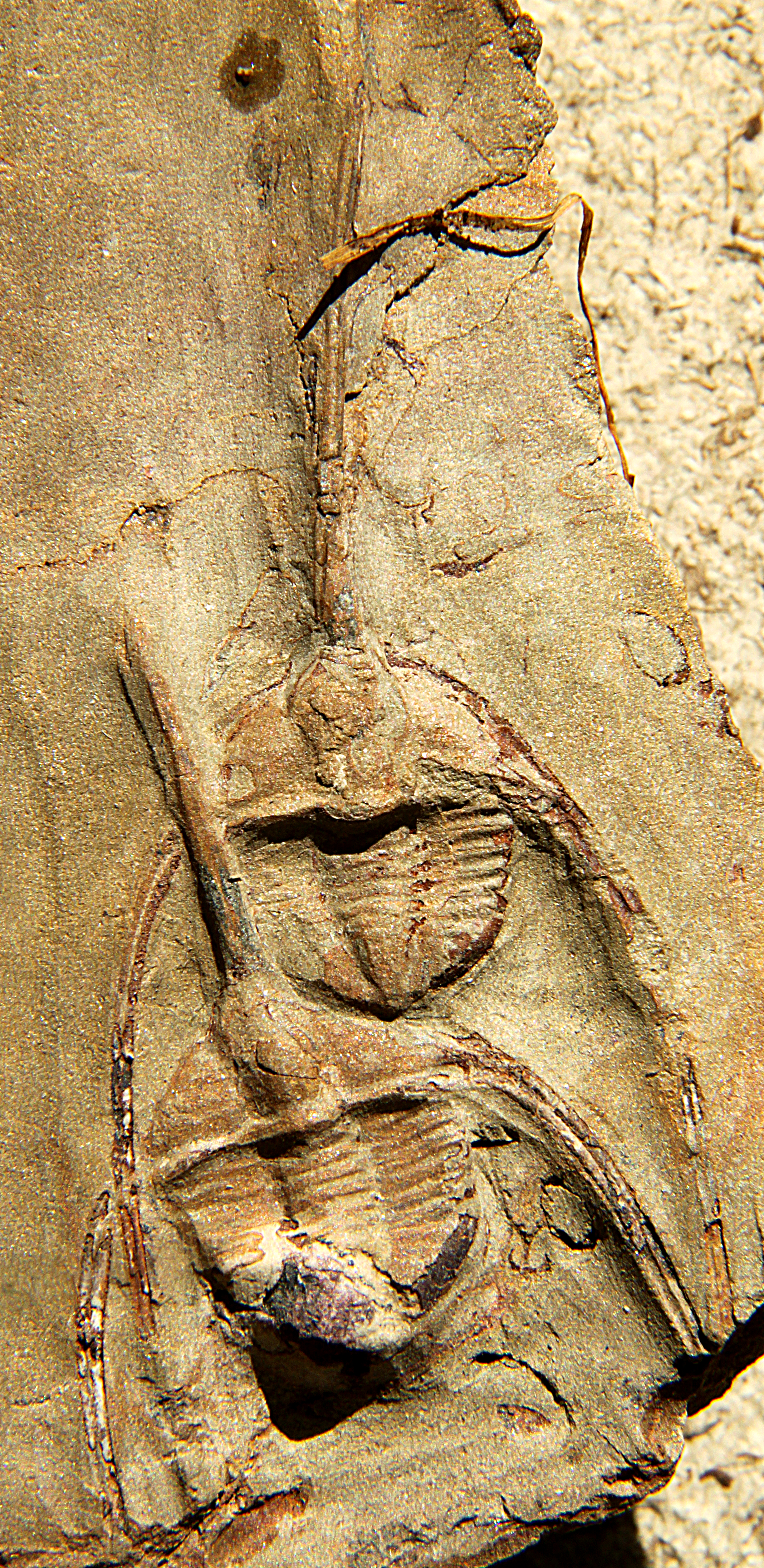 Two Ampyx priscus trilobites, Order Asaphida, Family Raphiophoridae, 18mm along the axis disregarding glabellar and genal spines, Zagora Marokko, Ordovician